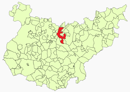 Guareña